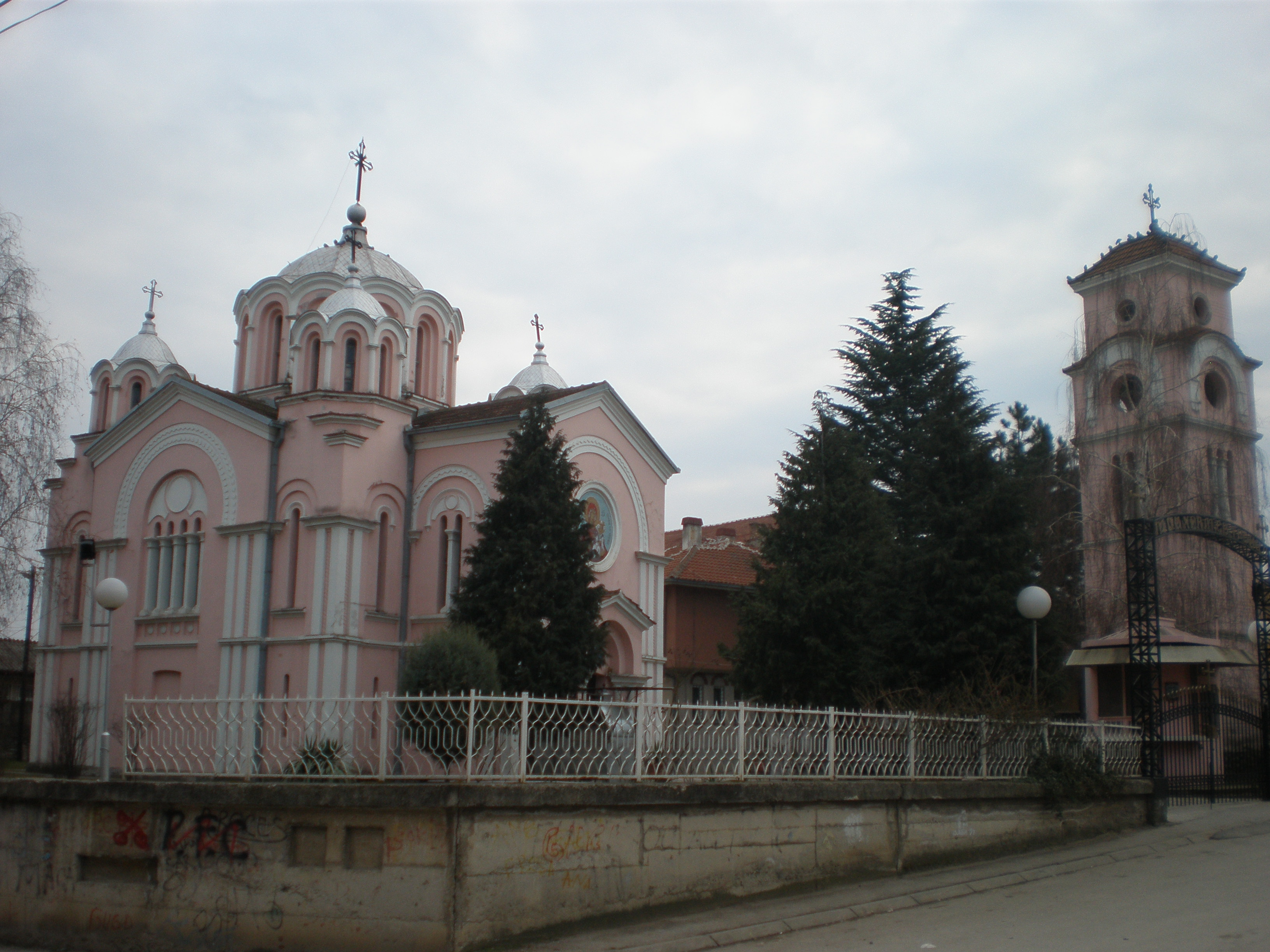 The church of Holly Trinity in the center of Kumanovo, Macedonia